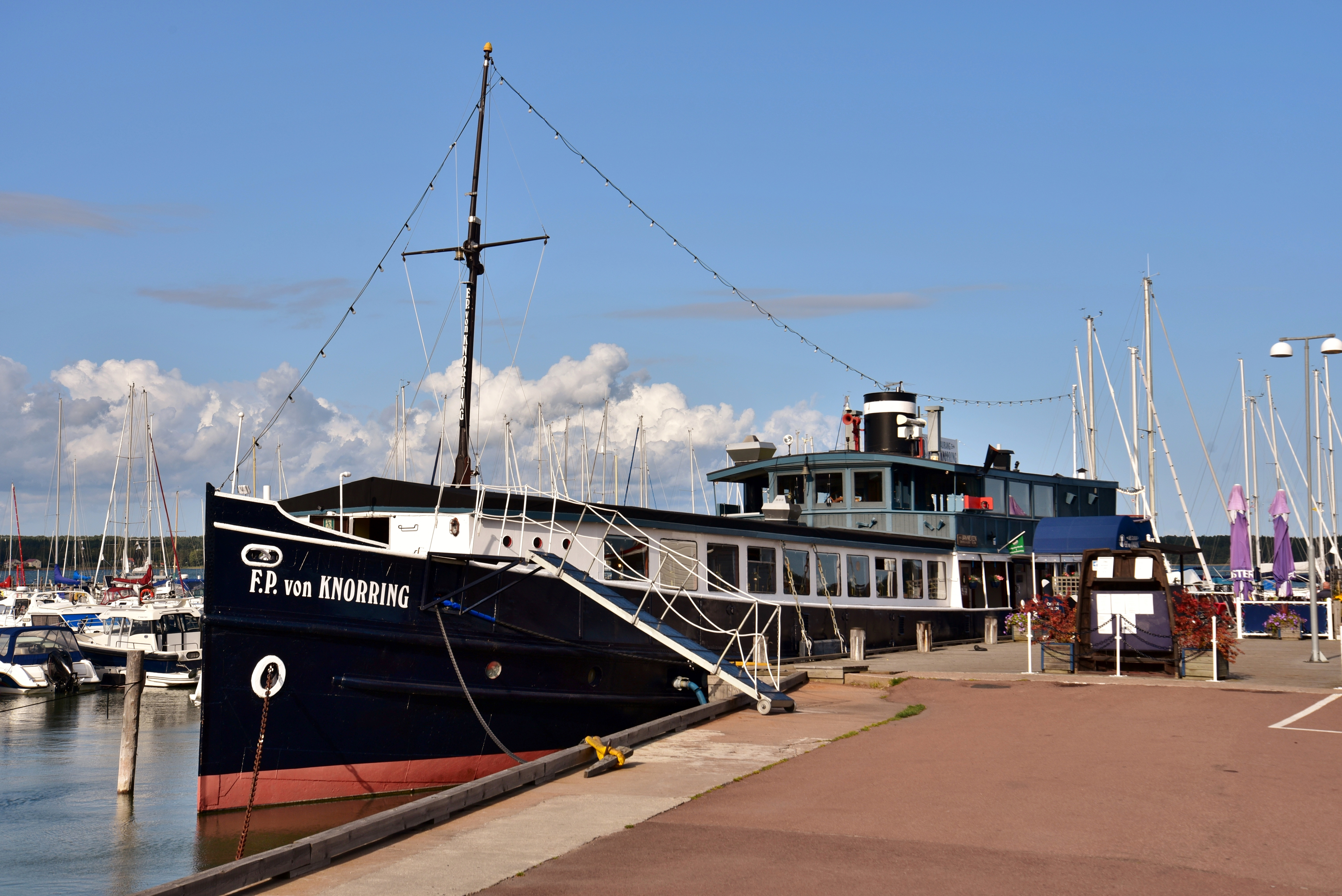 View of the F.P. von Knorring (originally Jan Nieveen), a passenger ship now used as a floating restaurant in Österhamn, Mariehamn, Åland Islands, Finland